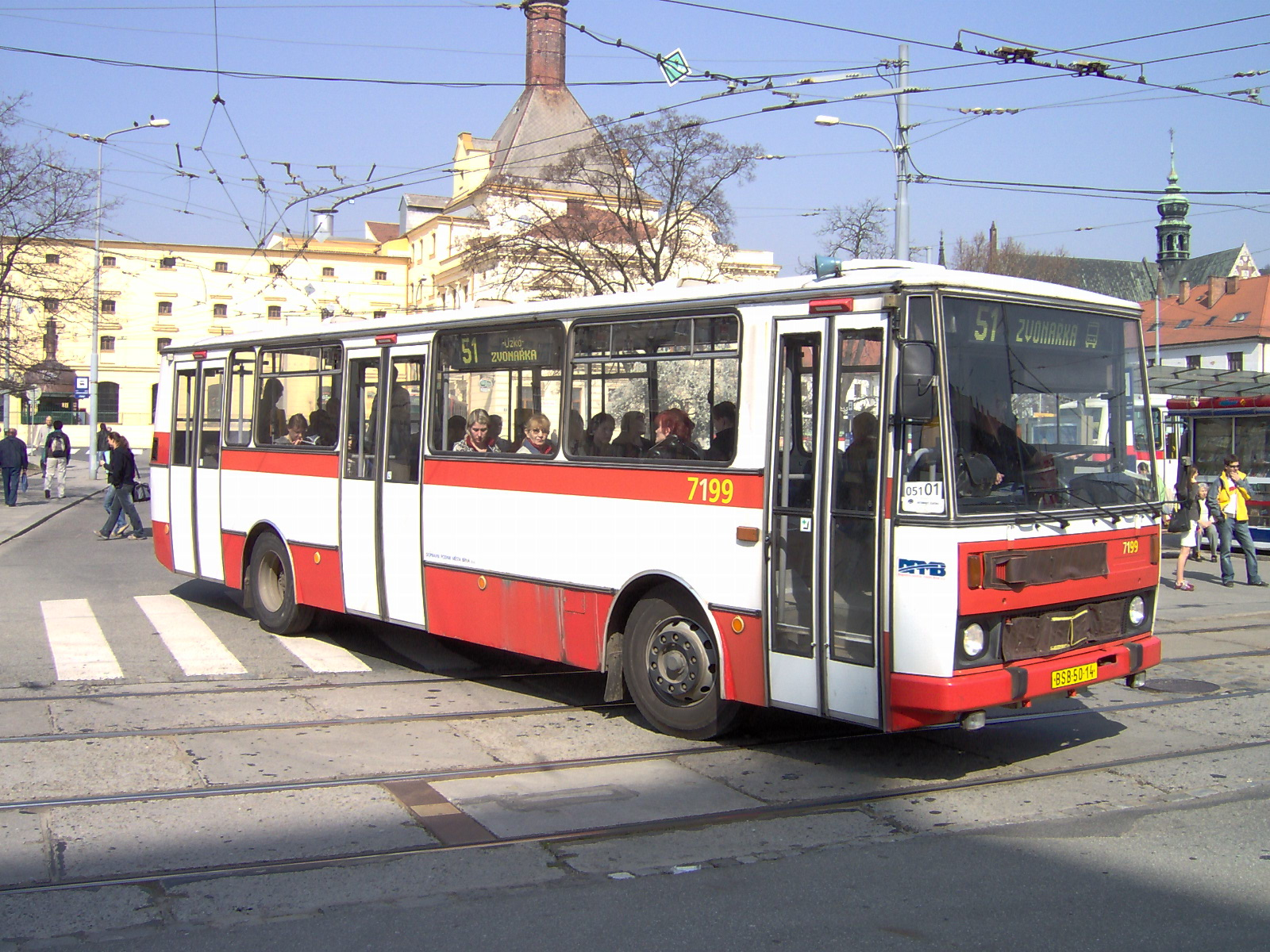 Karosa B 732 bus in Brno